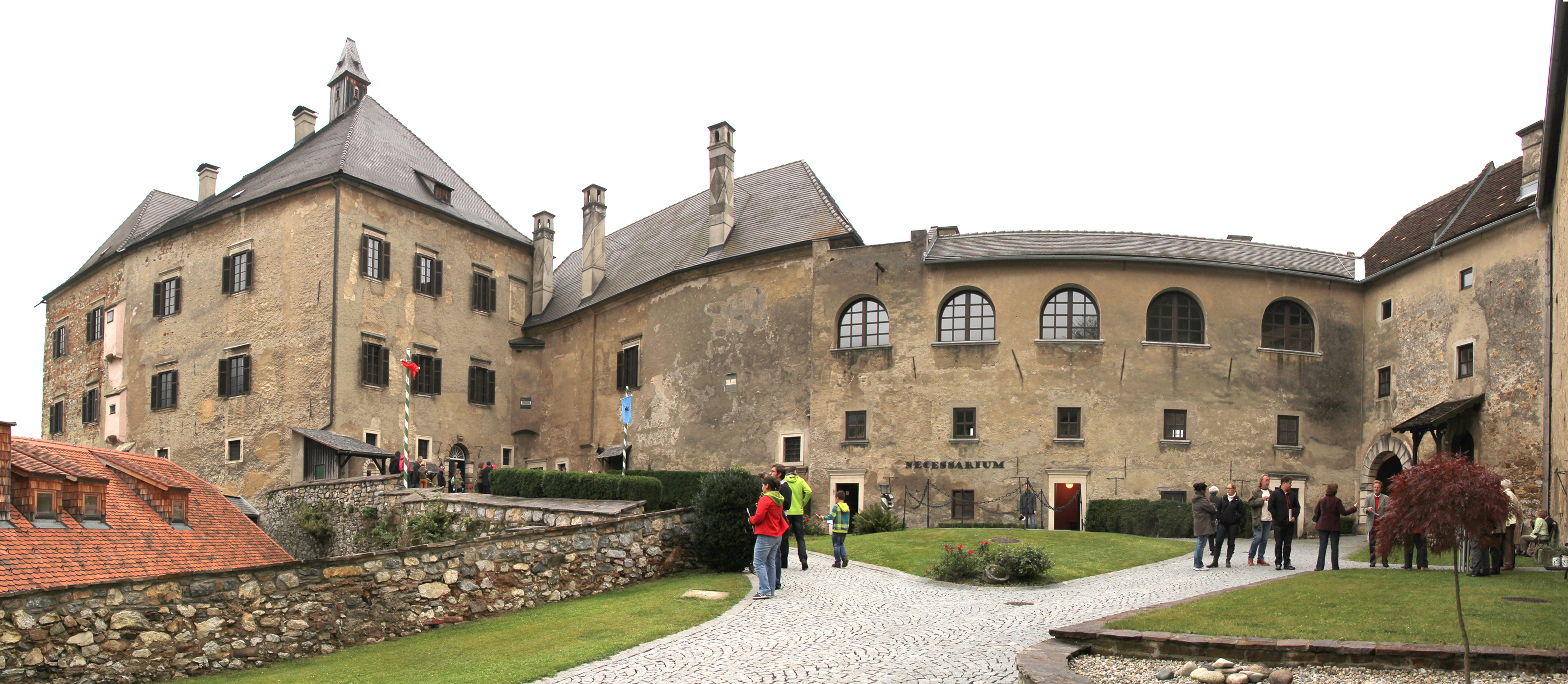 Frohnleiten - Burg Rabenstein Dieses Bild wurde anlässlich des österreichischen Tags des Denkmals 2012 in der Steiermark eingereicht.